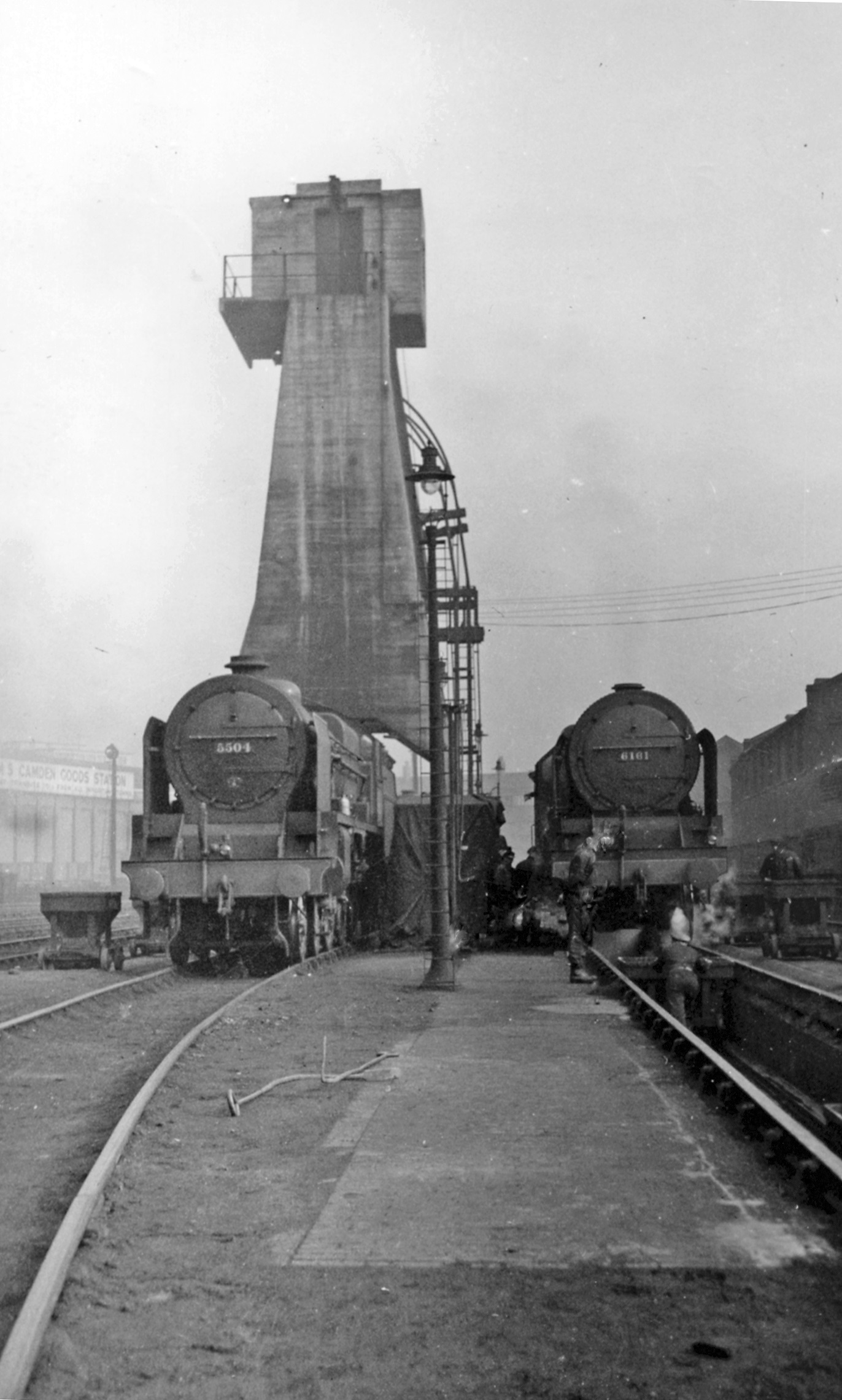 Locomotive Yard and ash plant at Camden, 1939View SE towards the Shed itself. The locomotives facing are Fowler 'Patriot' class 5XP 4-6-0 No. 5504 'Royal Signals' on left, Fowler 'Royal Scot' class 6P No. 6161 'King's Own' on right.